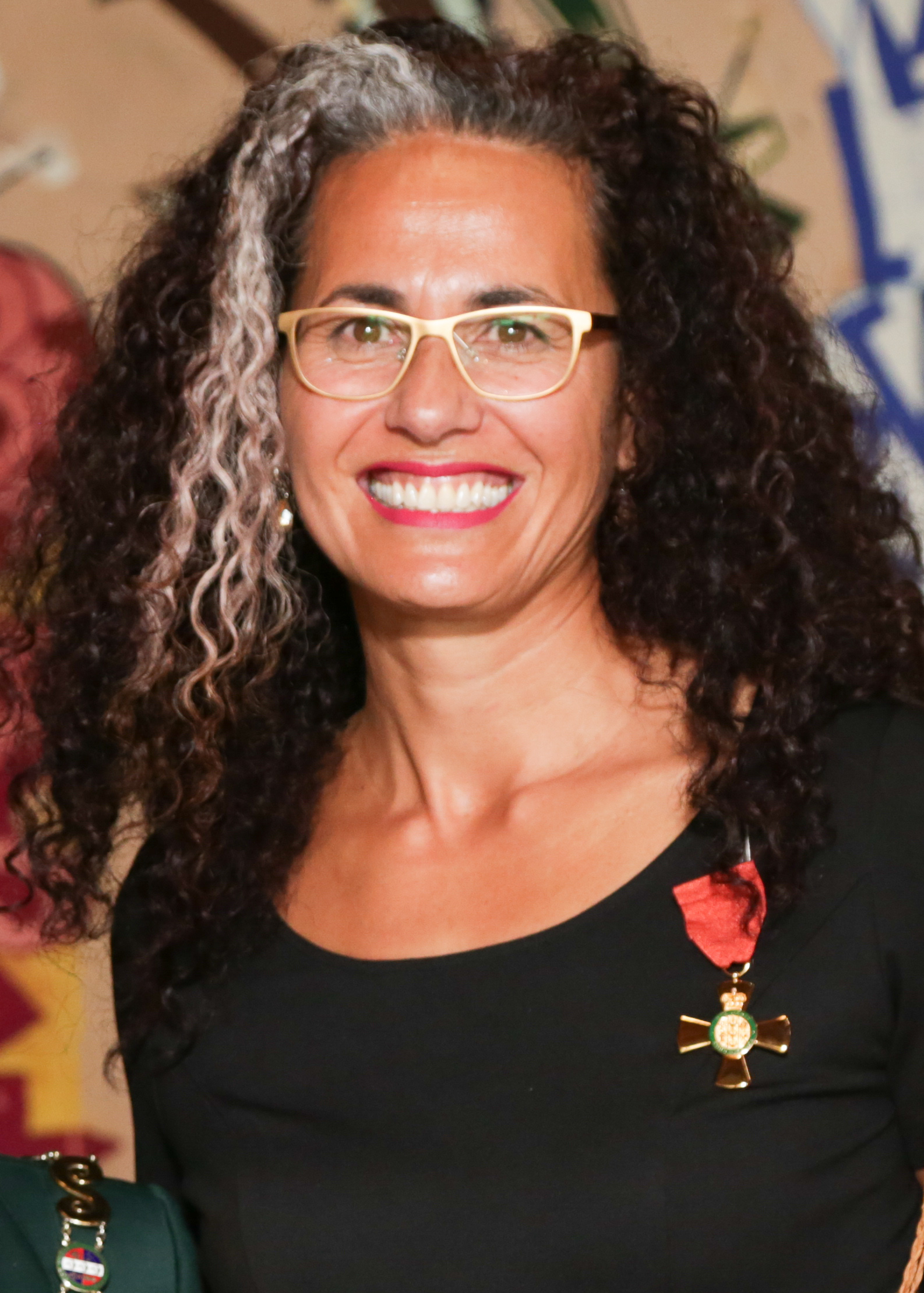 Selina Tusitala Marsh, after her investiture as ONZM, for services to poetry, literature and the Pacific community, at Government House, Auckland, on 21 May 2019.